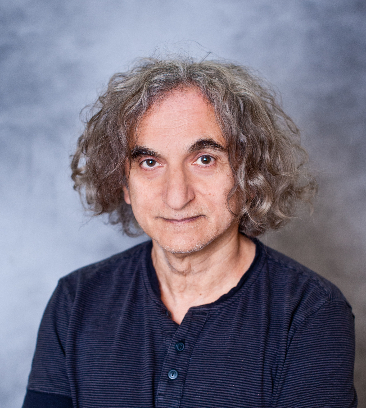 Picture of Oded Galor